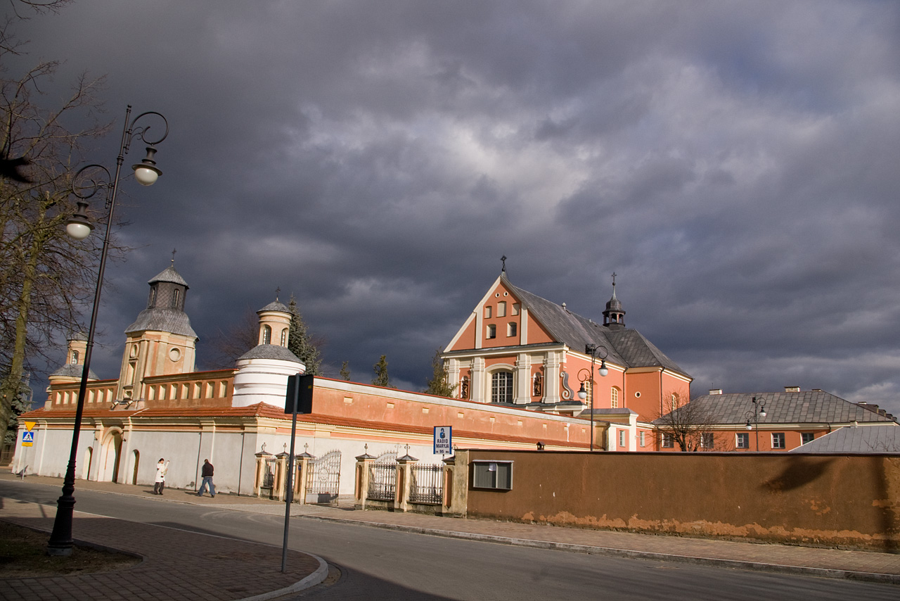 City of Ostroleka (Poland), Saint Anthony's church.